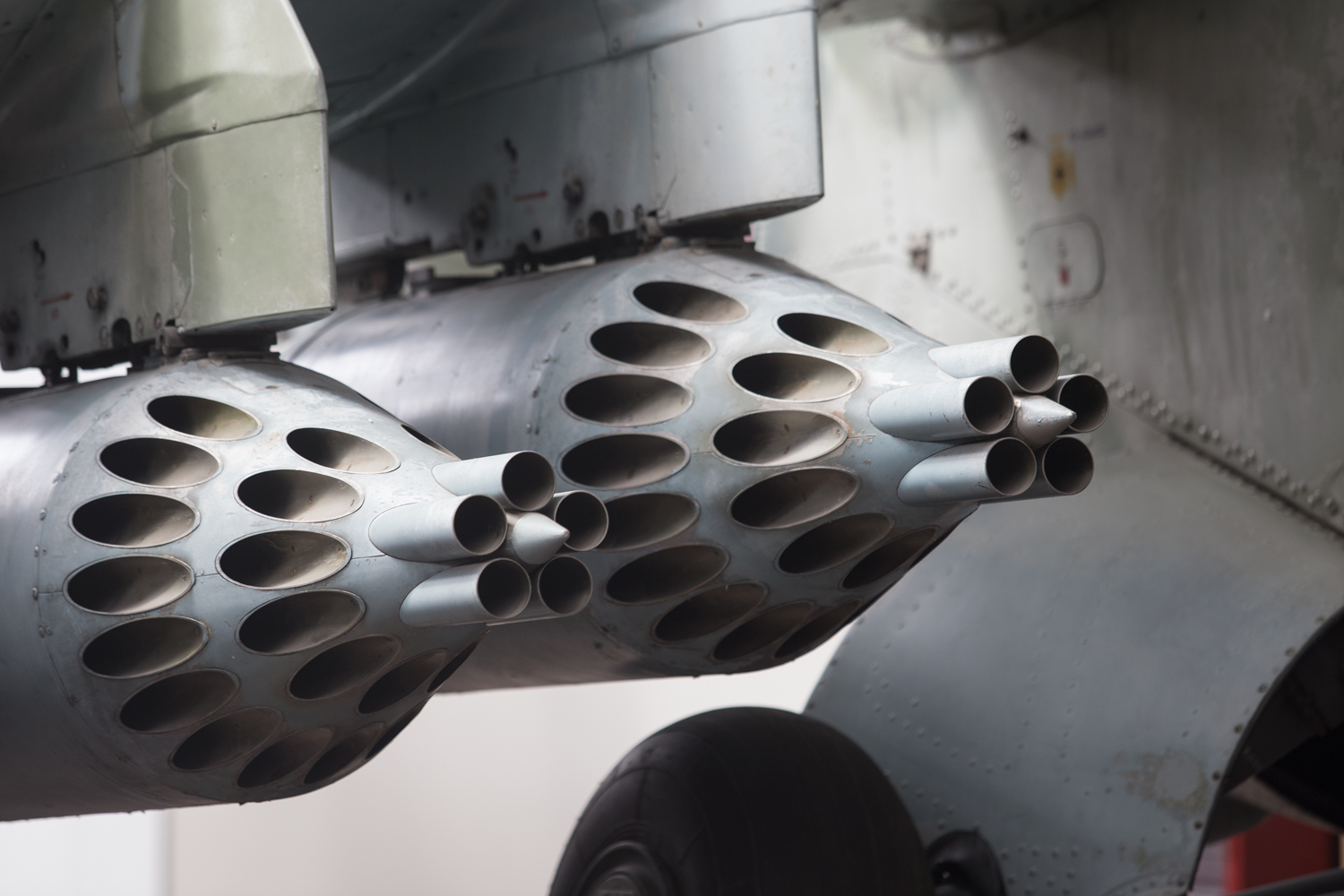 UB-32 rocket pods mounted on a Mi-24 Hind helicopter.